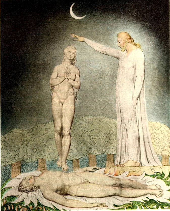 William Blake, "The Creation of Eve", from his watercolour illustrations to Paradise Lost, Book VII, 1808